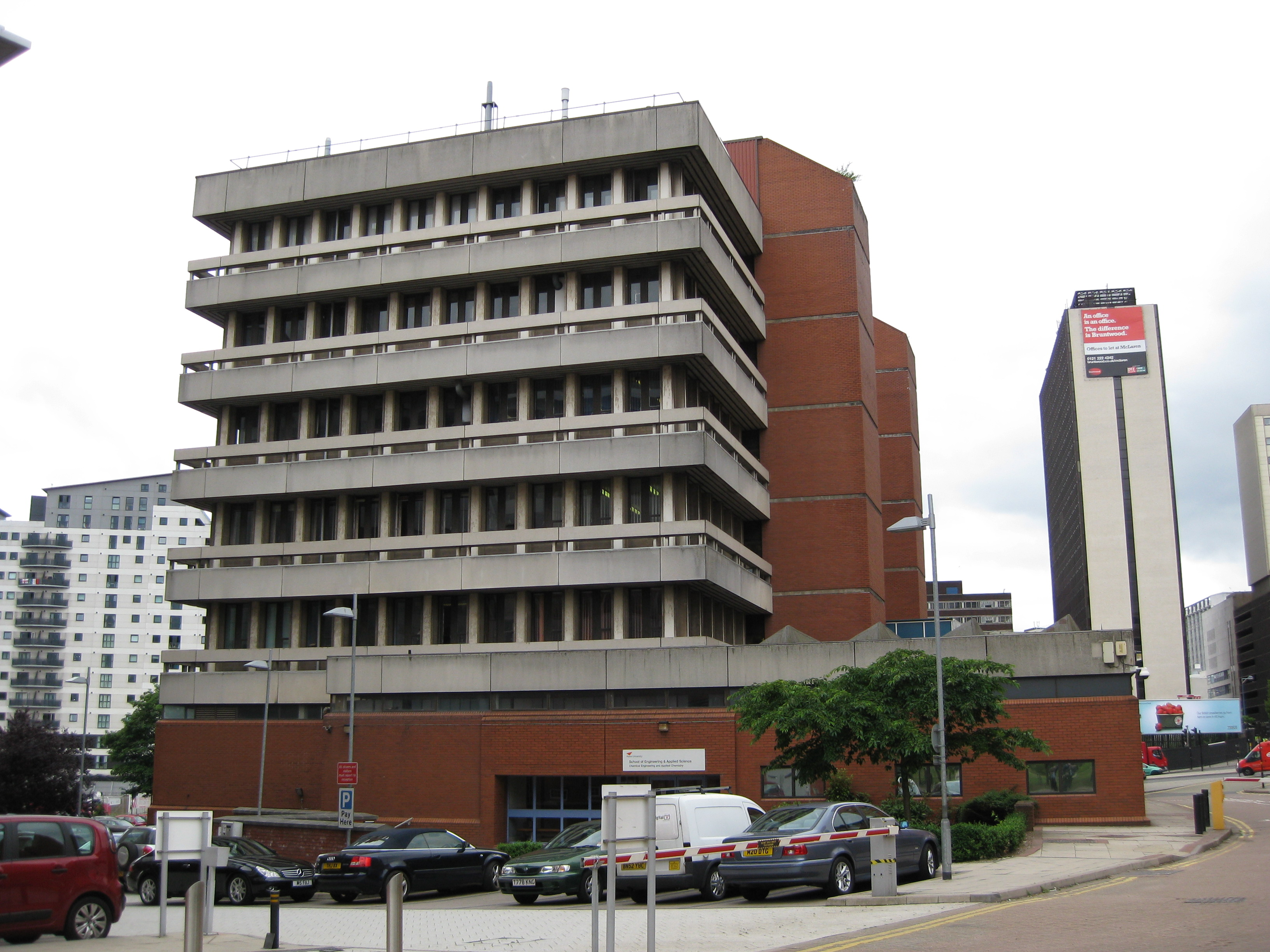 Chemical Engineering building, Aston University, Birmingham, England.